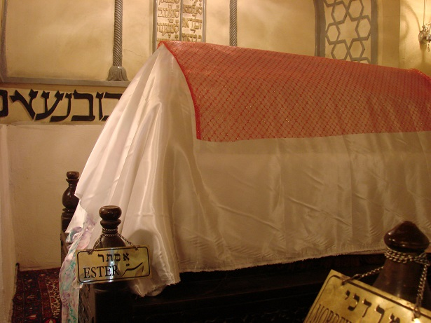 Sarcophagus labeled "Ester" in Jewish Mausoleum, Hamadan, Iran